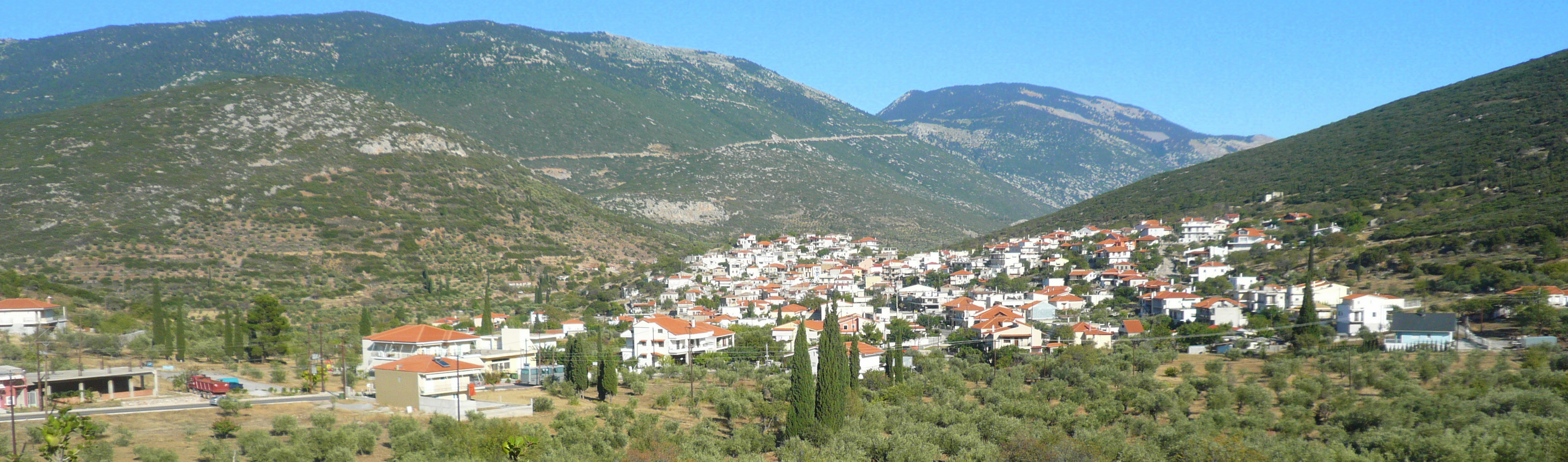 Steiri, greek village in Boeotia Prefecture